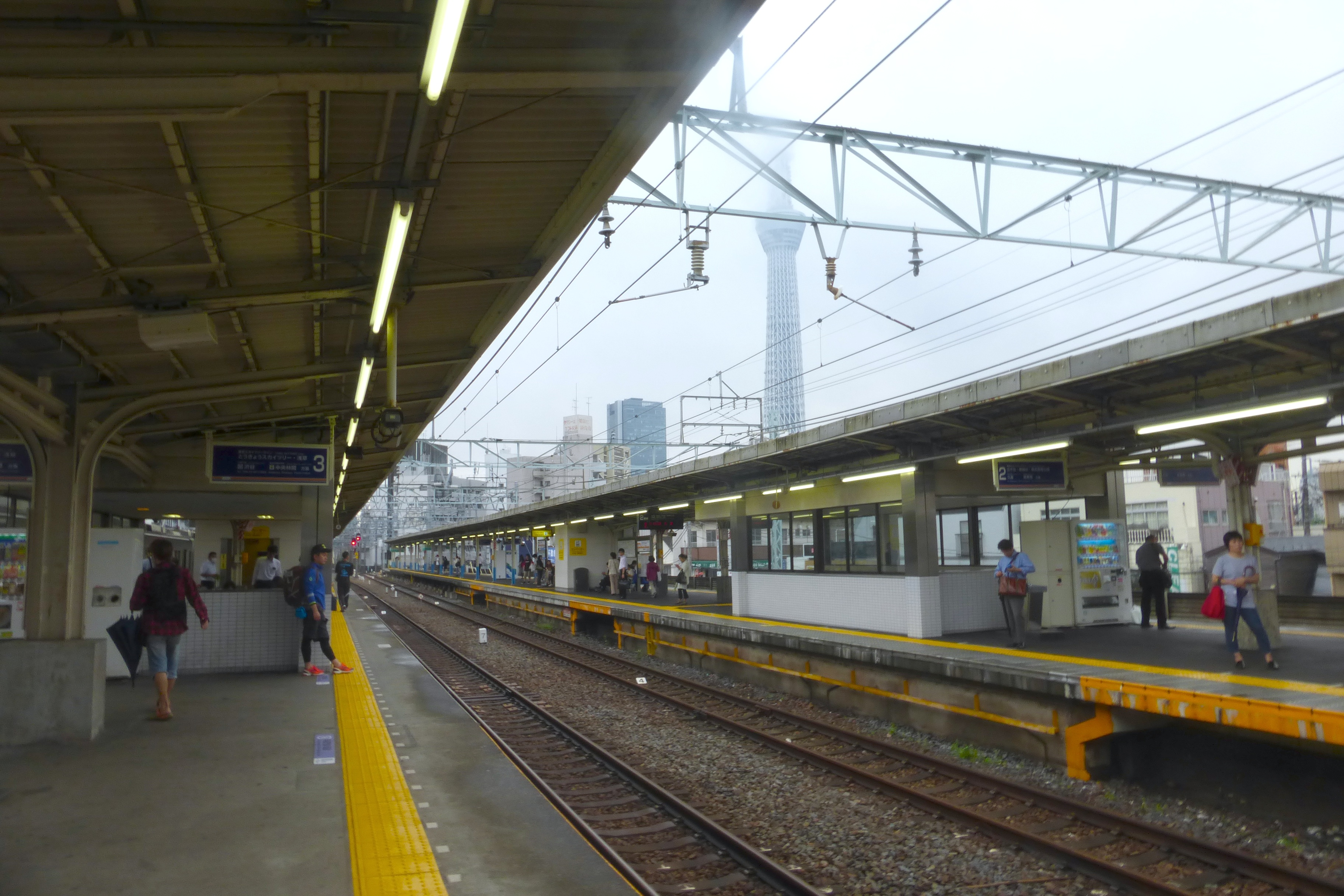 曳舟駅のホーム (platforms of Hikifune Station)